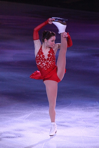 2010 Stars on Ice in Manchester - Sasha Cohen